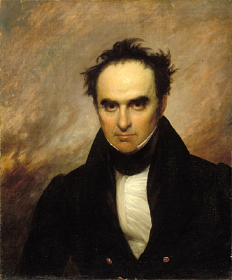 Francis Alexander, American, 1800-1880. Daniel Webster (Black Dan) (1782-1852). 1835. Oil on canvas. Dartmouth College.